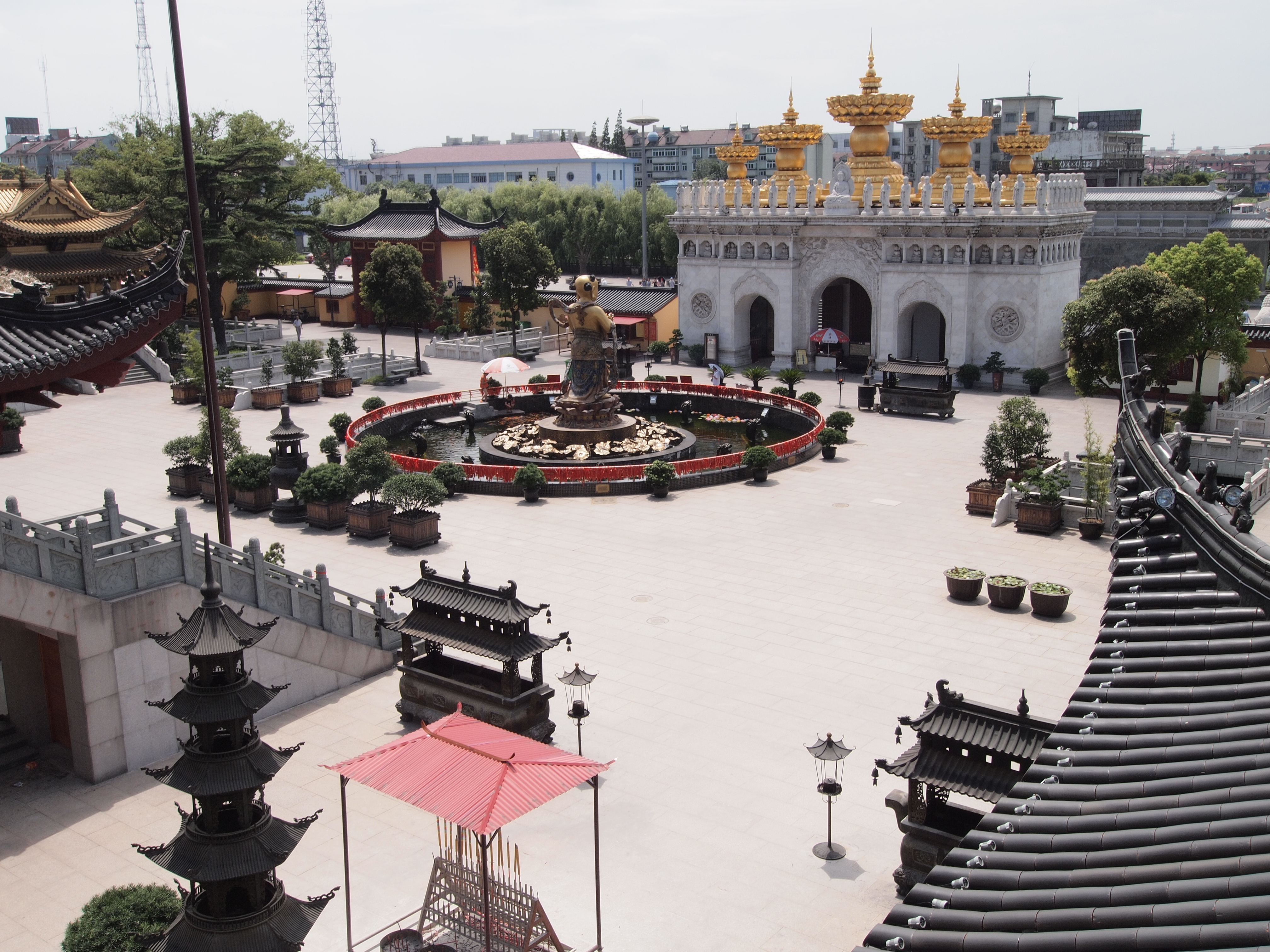 Donglin Temple Shanghai